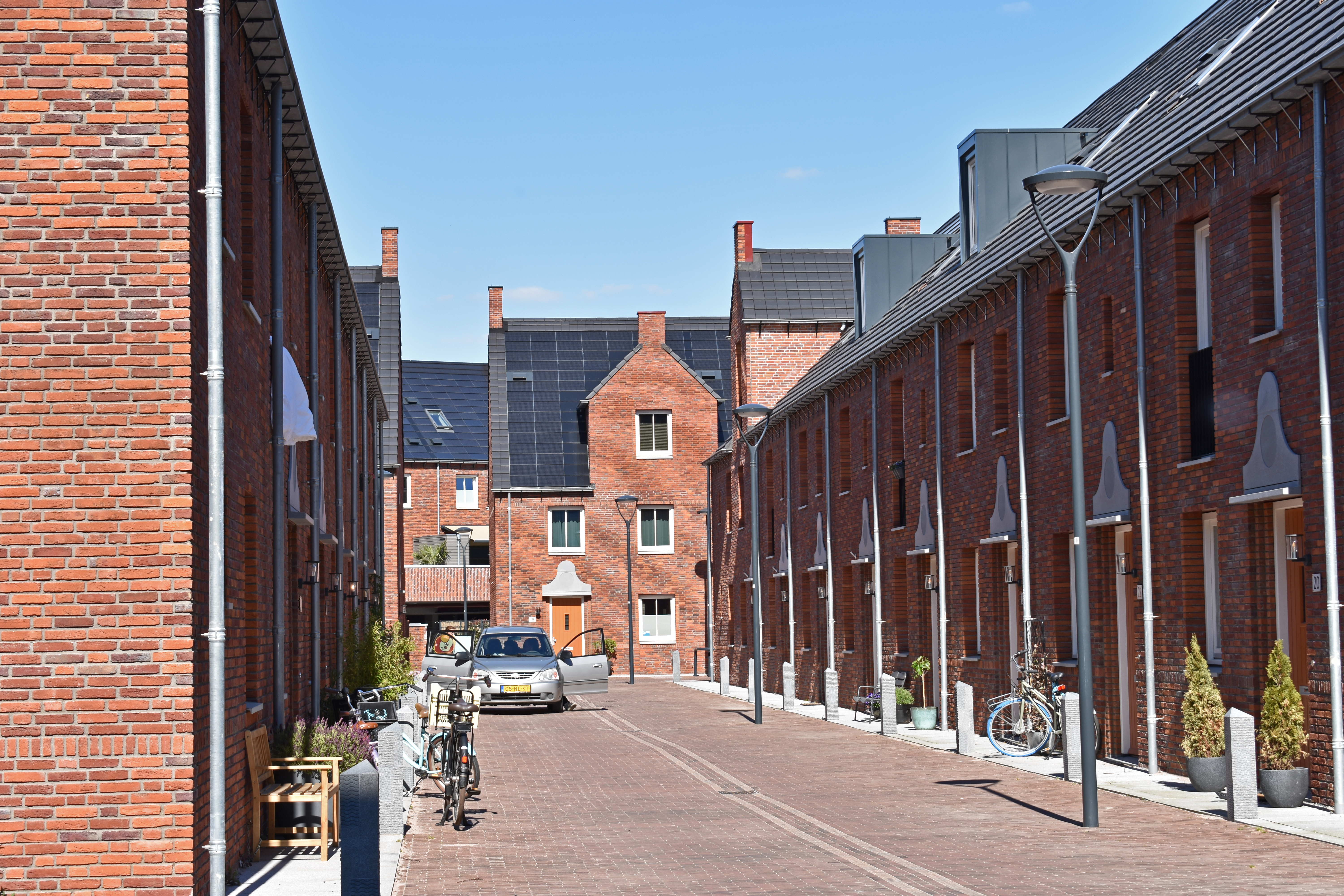 Luxemburghof, north section, Delft